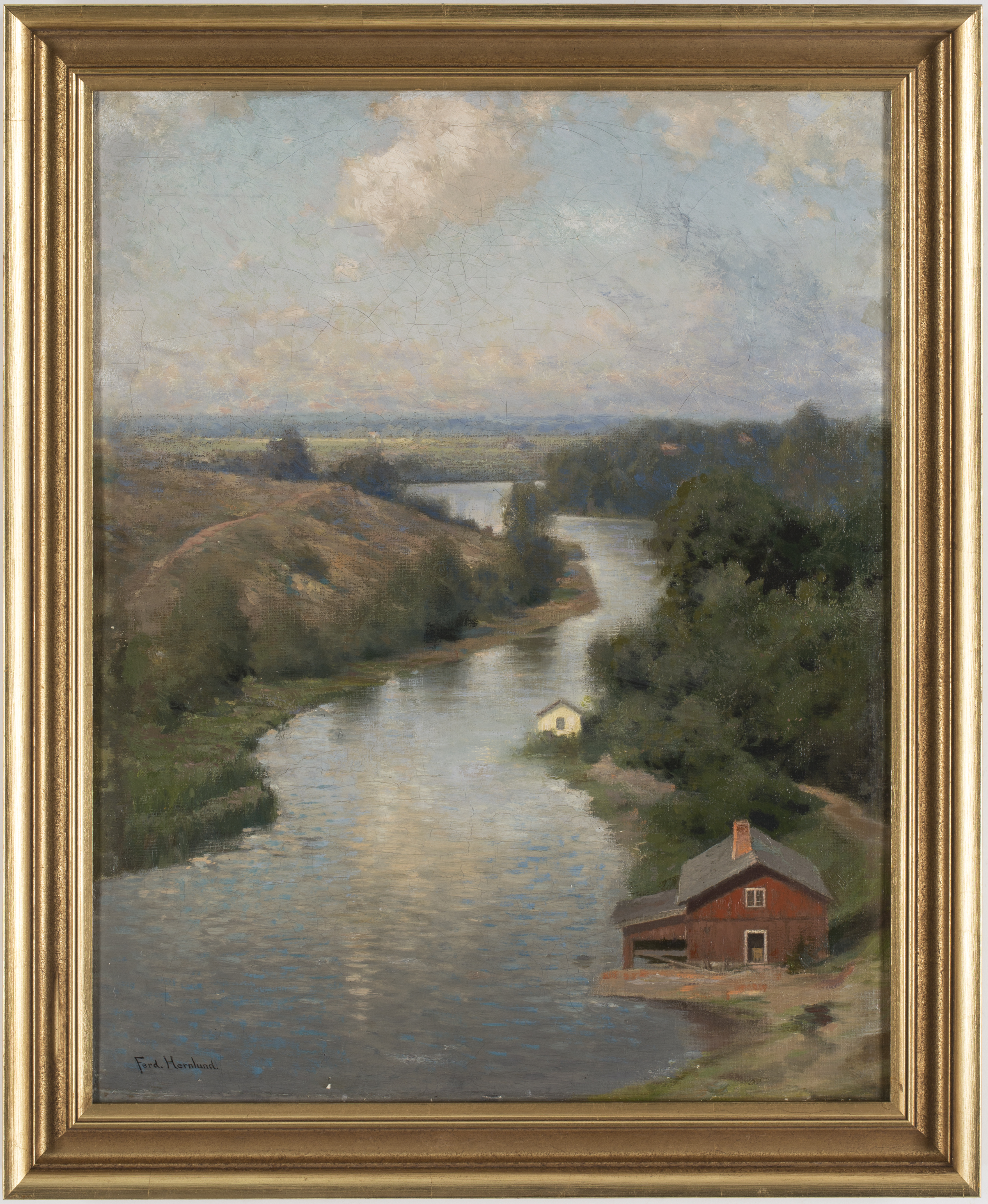 Landscape with watercourse. Oil on canvas, 55 x 43 cm.